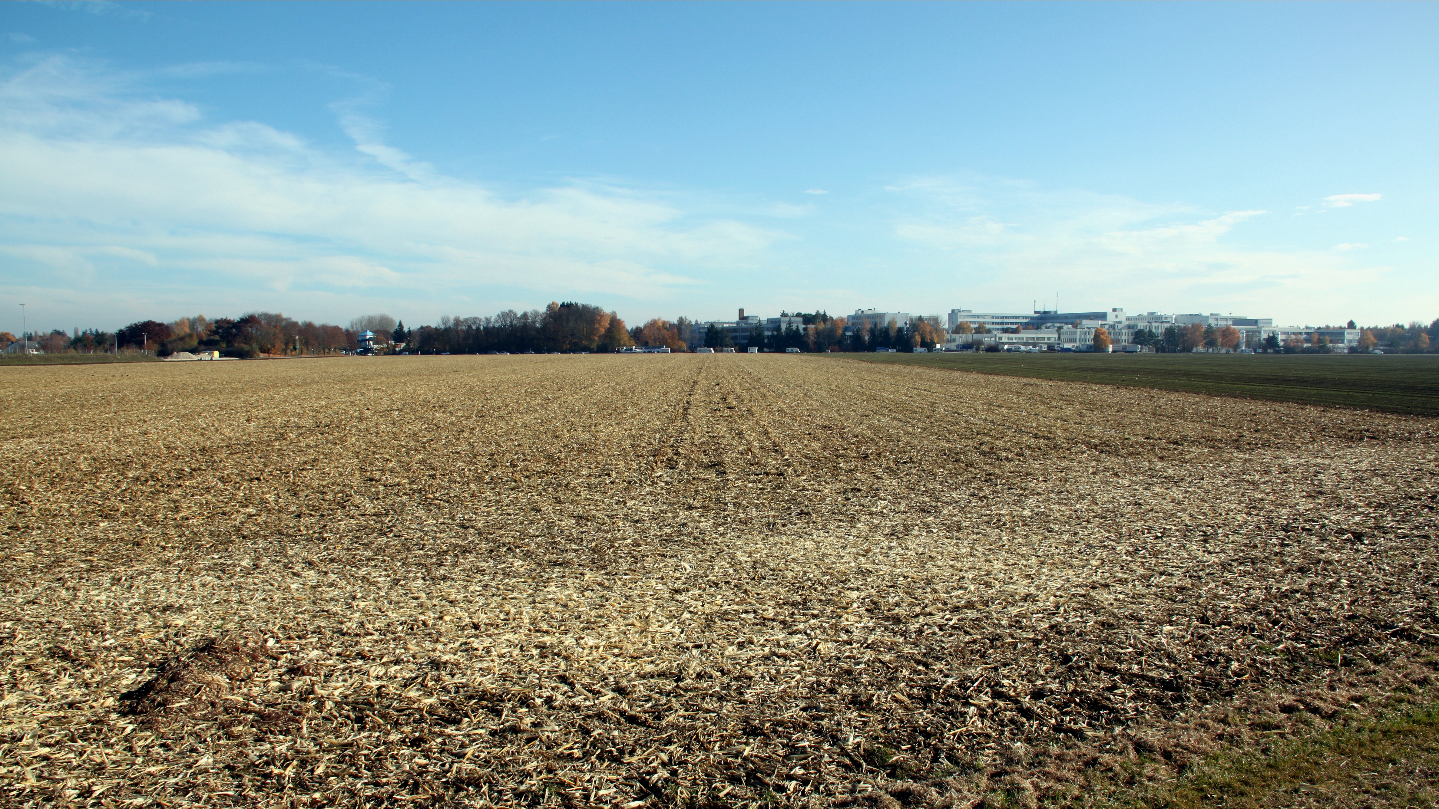 Ottobrunn: View from the utmost southwest of the municipality. In the foreground the Munich Gravel Plain. The white building with the blue roof on the left is the tower of the Phönix-Bad (public swimming pools). Right adjoining the so-called Bölkowberg (Bölkow Hill), the highest point of Ottobrunn. In the middle and on the right of the image is the former site of Messerschmitt-Bölkow-Blohm. The brown field belongs to Ottobrunn, the green one to Taufkirchen. The road in front of the buildings is the Haidgraben, the Taufkirchen section of which is called Ludwig-Bölkow-Allee (Ludwig Bölkow Alley). Still in the second half of the 20th century it marked the border between the Höhenkirchen Forest and the Haching Valley.